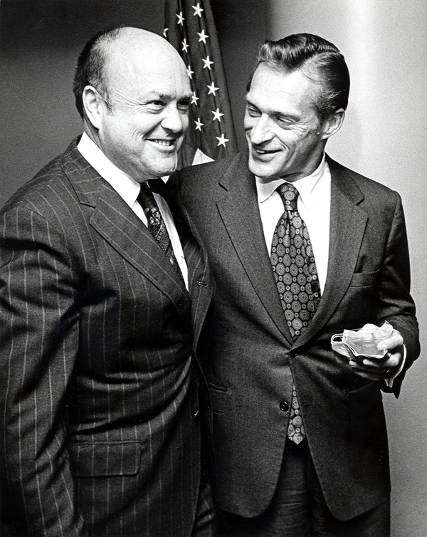 Secretary of Defense Melvin Laird and Director of Defense Research and Engineering John S. Foster, former chairman of the National Strategic Targeting and Attack Panel, at a Pentagon surprise reception in honor of Foster, 2 October 1972